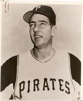 The original early 1960s Houston Colt 45's press photo of Jim Umbricht, who was drafted by the team in 1962. The website also shows the information about Umbricht in the back of the photograph (which I can upload in request), and without a copyright notice. A check of several other pictures doesn't include copyright notices. It is therefore it is presumed the entire Colt 45s press kit is PD not renewed/PD no copyright 1978.